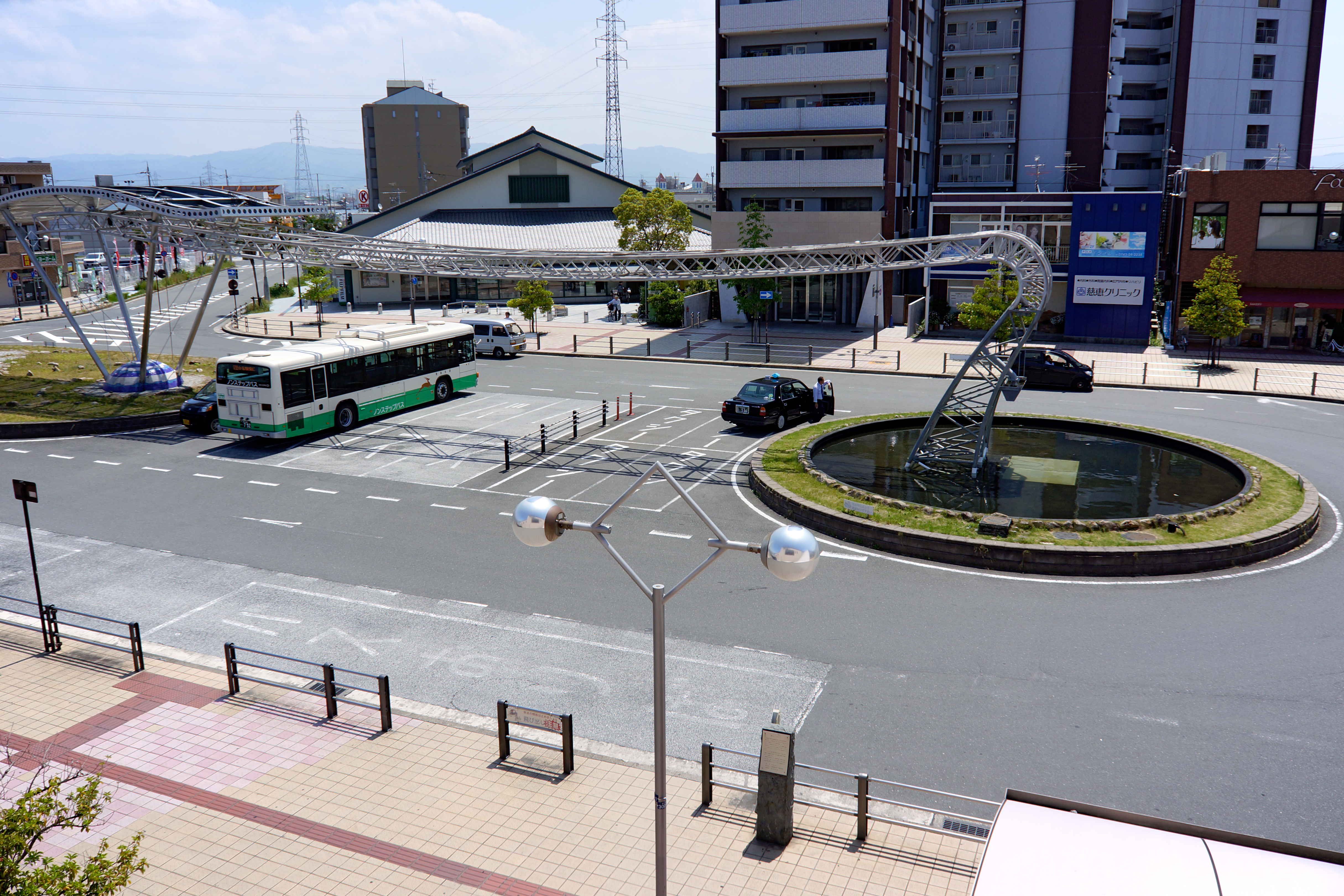 Yamato-Koizumi Station in Yamatokoriyama, Nara prefecture, Japan.